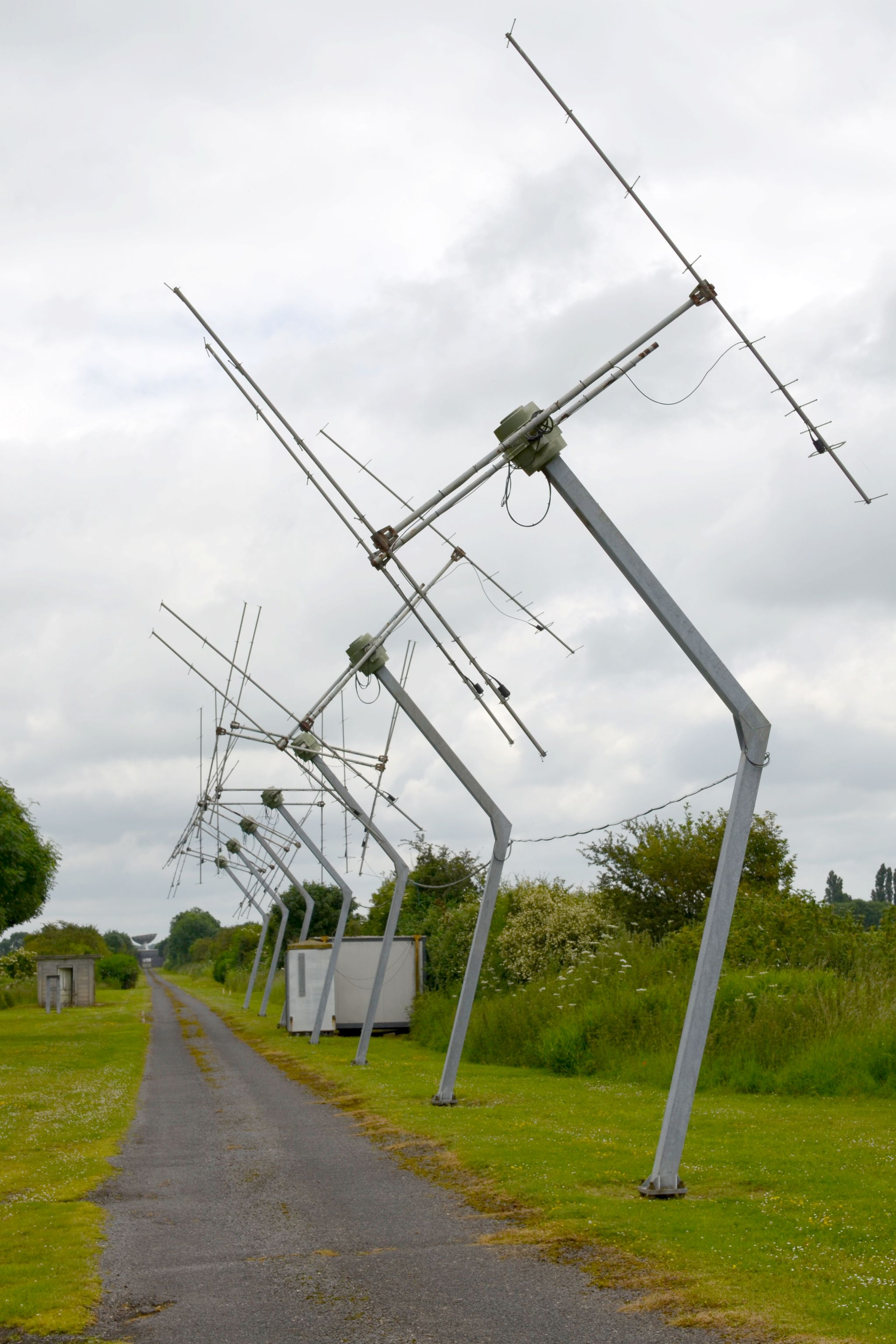 Surviving Yagi antennas of the Cambridge Low Frequency Synthesis Telescope at the Mullard Radio Astronomy Observatory, Cambridgeshire in June 2014.